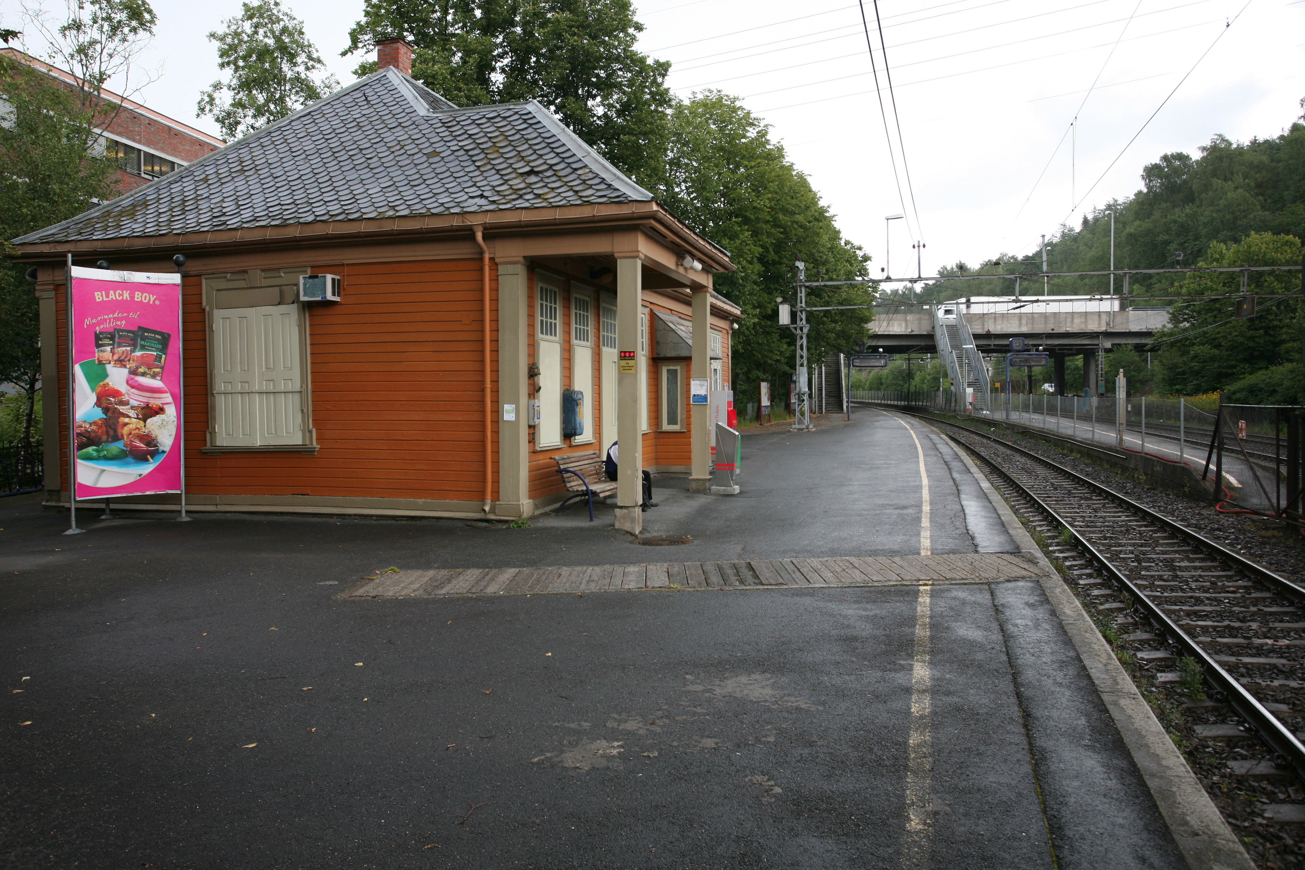 Picture of Bryn Railway Station (Norway)